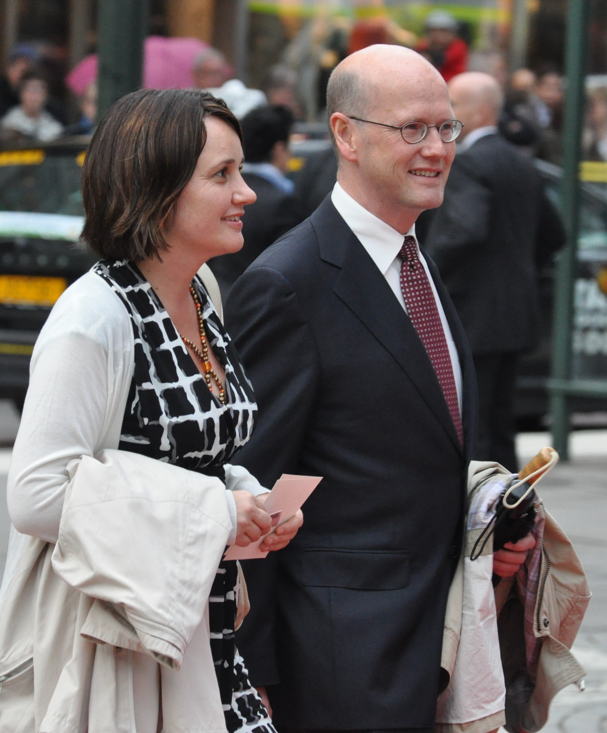 Wedding of Victoria, Crown Princess of Sweden, and Daniel Westling; Arrival of members for the Government and Swedish and foreign guests of hounour - here Social democrat politician a former minister (right) - to the Riksdag's Gala Performance at Konserthuset